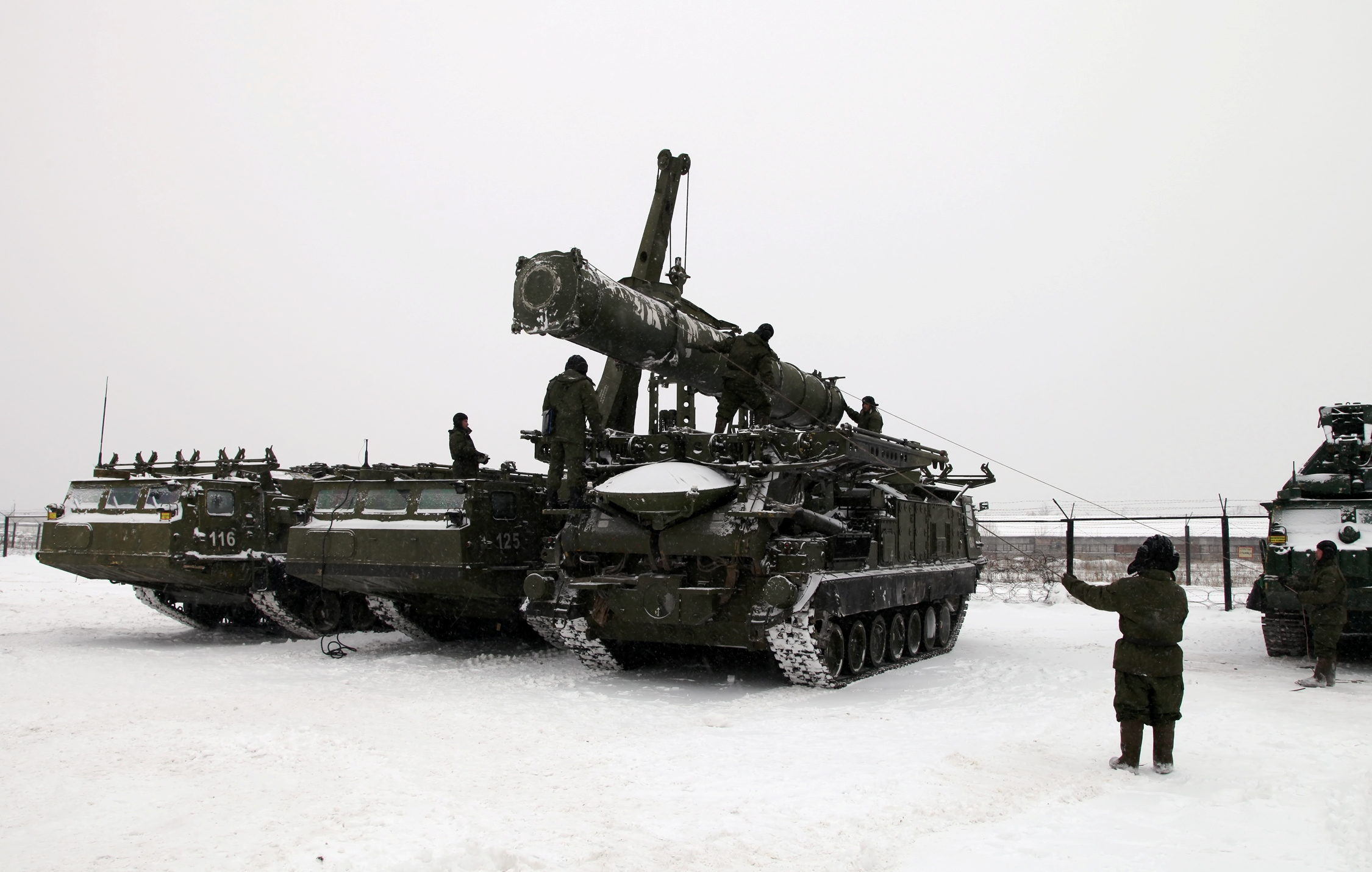 The 202nd Air Defence Brigade in the Western Military District in Russia. This air defence brigade is equipped with S-300V-SAMs. This brigade received these systems in 1989.